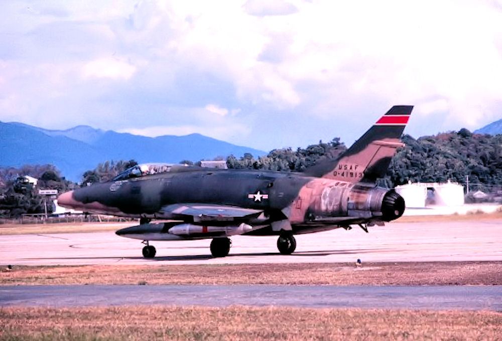 127th Tactical Fighter Squadron - North American F-100C-20-NA Super Sabre 54-1913 Aircraft retired to to MASDC Apr 12, 1974 as FE0244